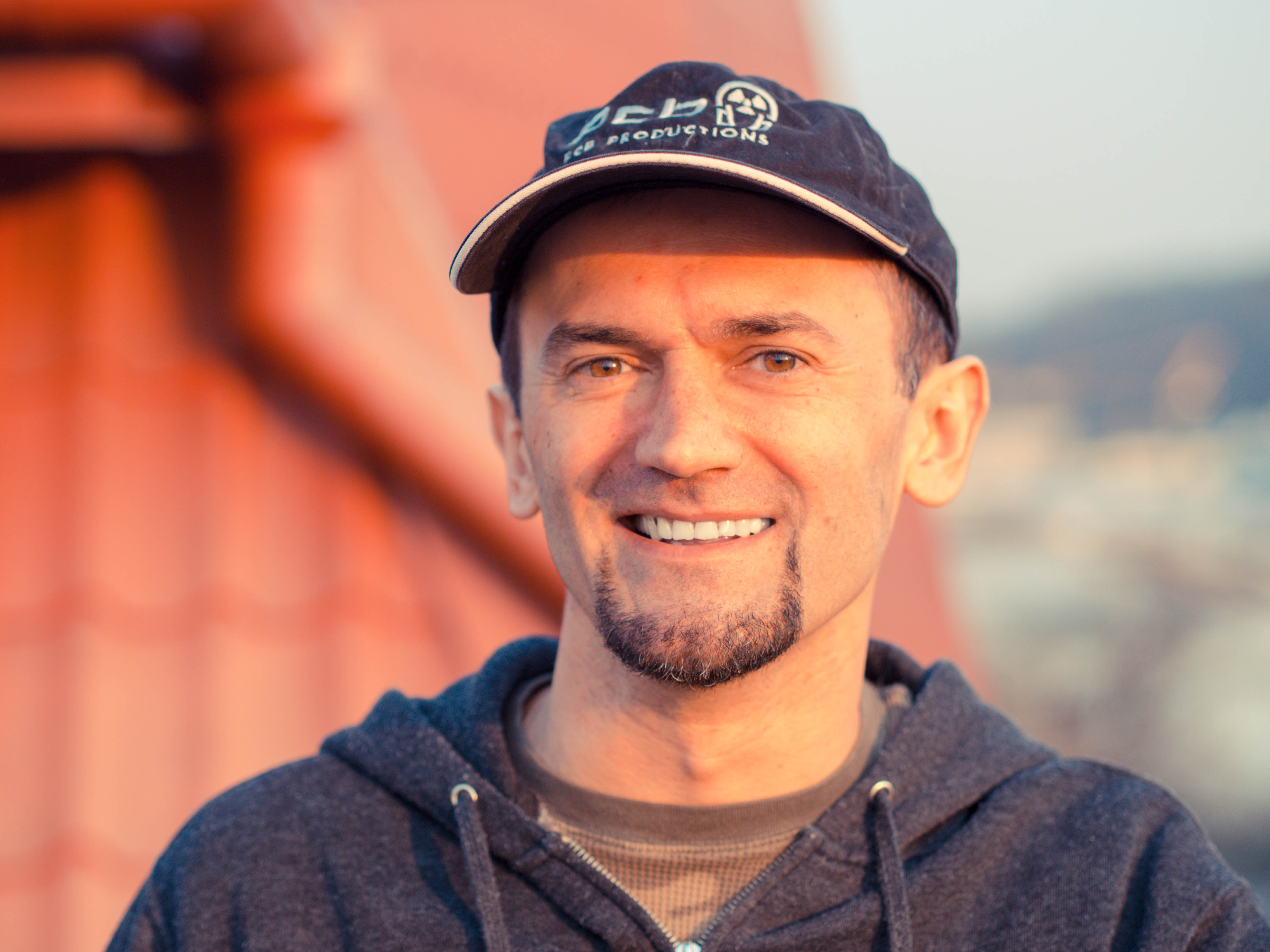 Andriy Prokhorov, the founder of 4A Games